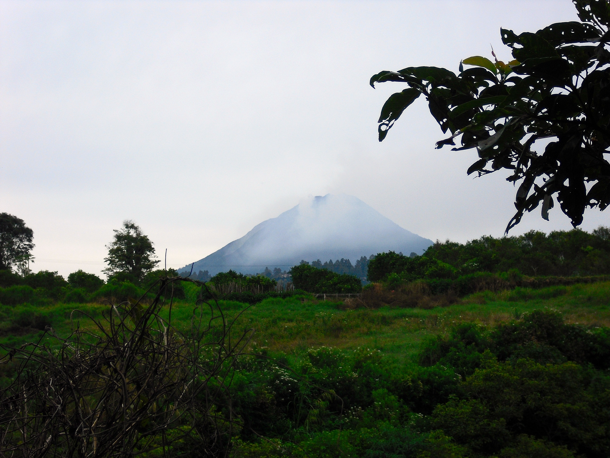 Mount Sinabung as seen on Berastagi on 10 September 2010. (editted with Photoscape)